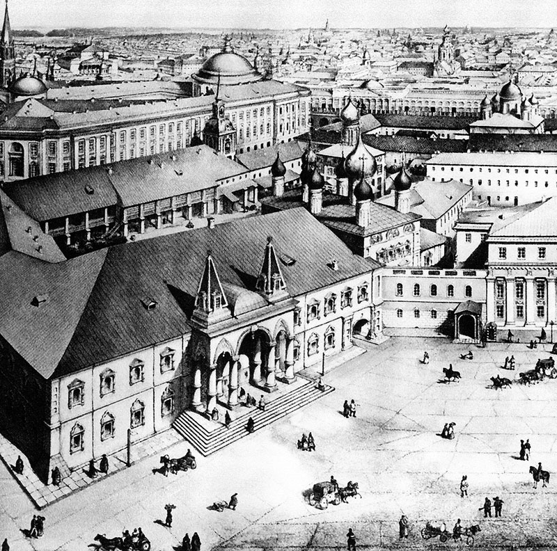 Moscow Kremlin. Chudov Monastery